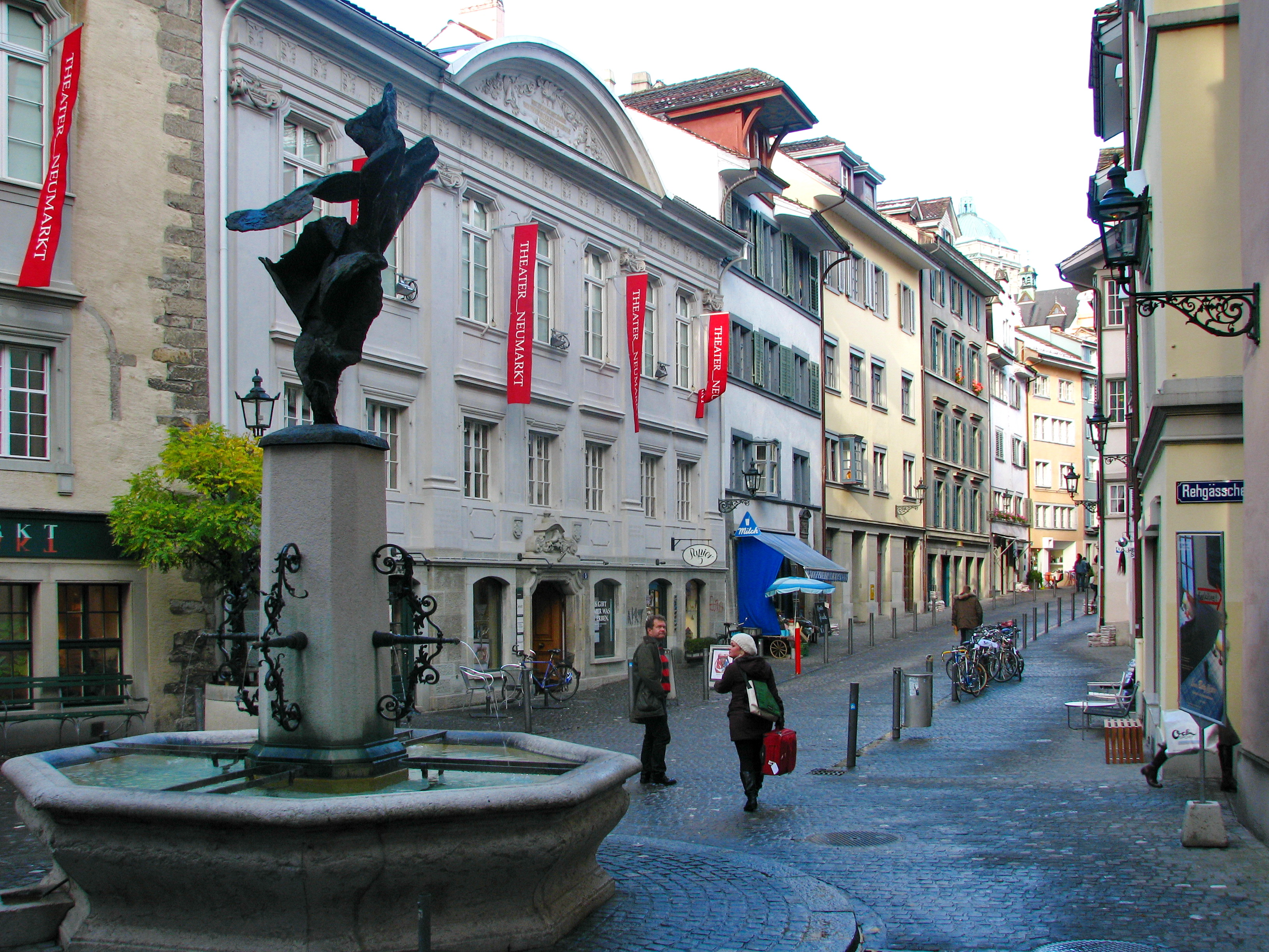 Zürich: Altstadt quarter (Neumarkt) with Bilgeriturm (13th century) and Nike fountain at the left side, and, in the center, Theater am Neumarkt.